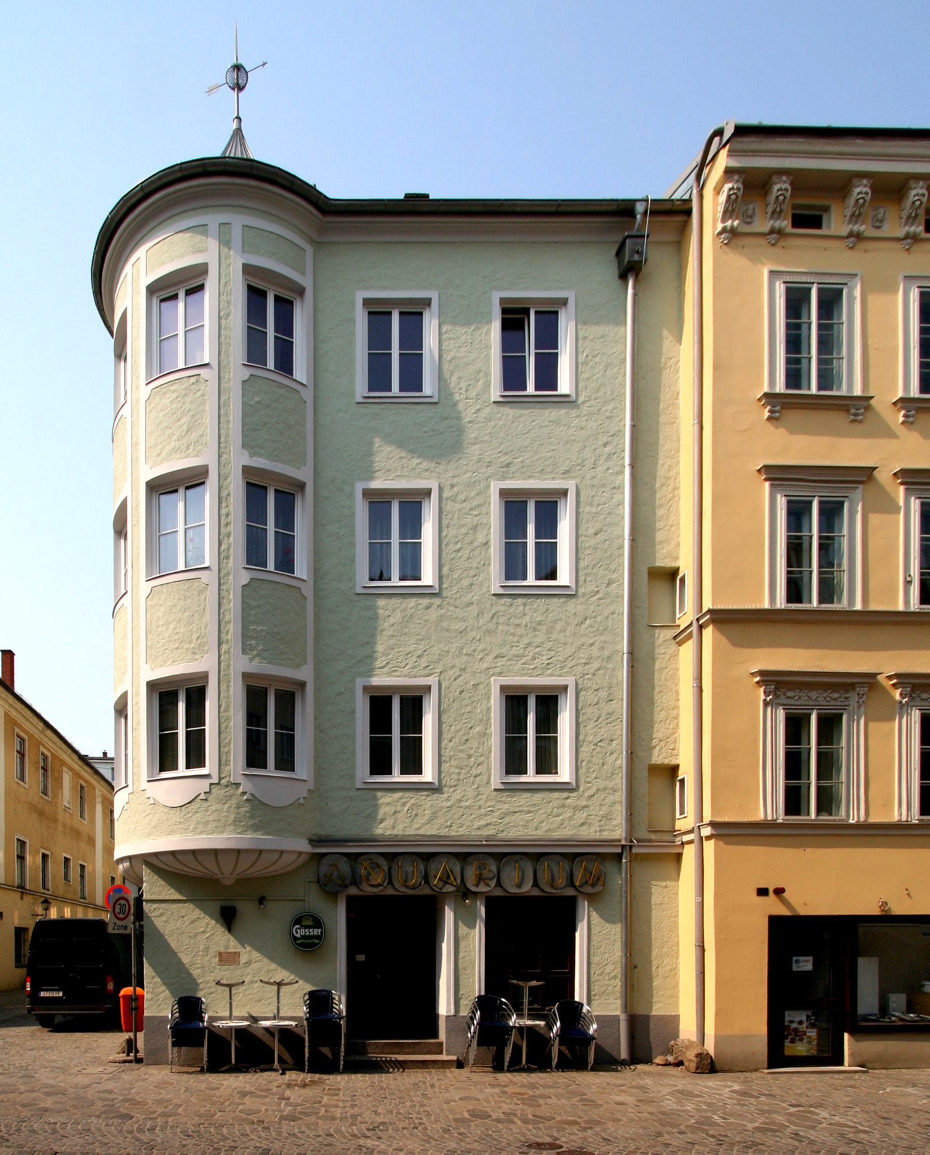 Linz, Altstadt 22 Todays Café Aquarium, former inn "Zum Schwarzen Bock", birth place of actress Hedwig Bleibtreu